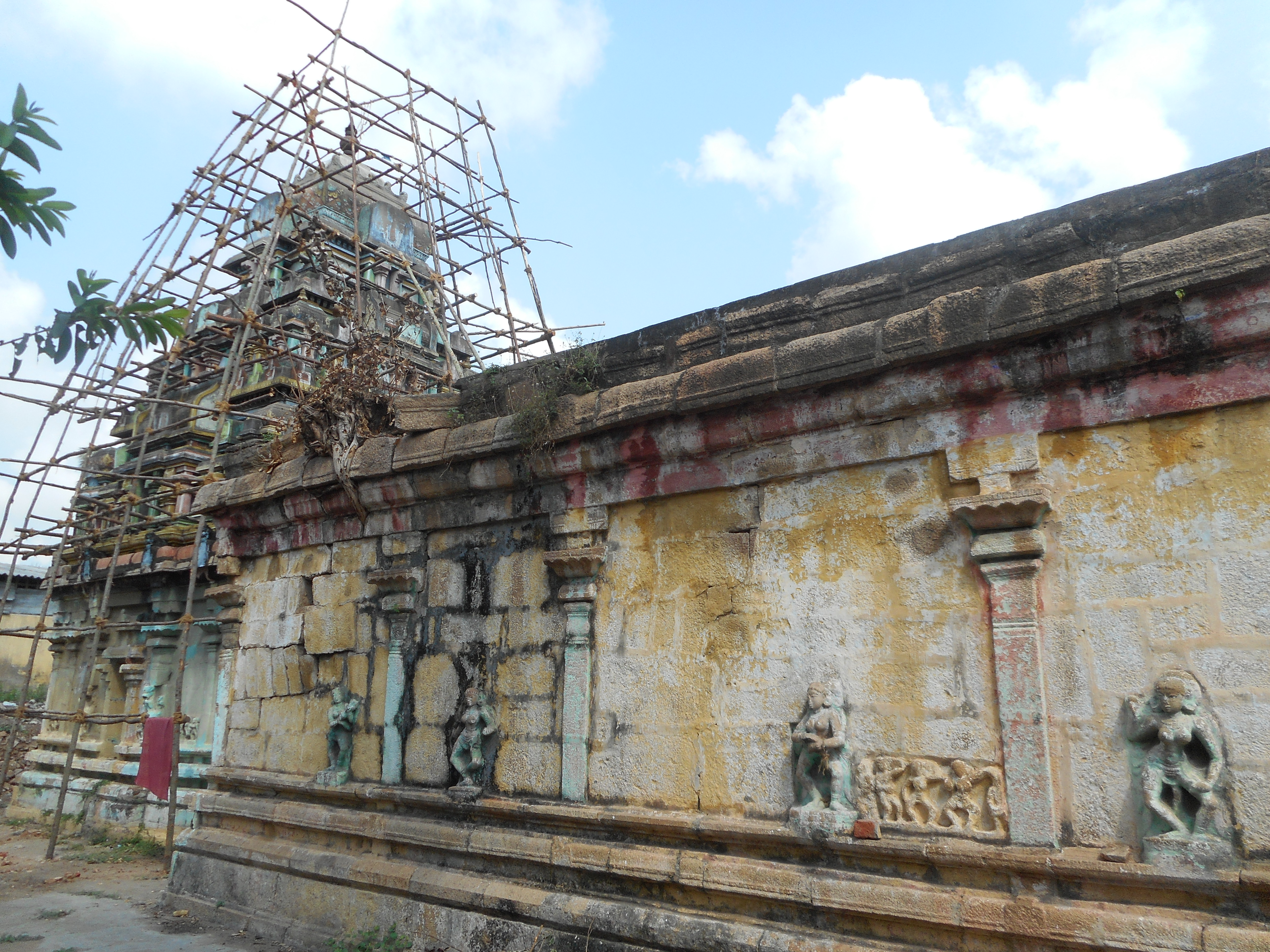 கும்பகோணம் சரநாராயணப்பெருமாள் கோயில்1